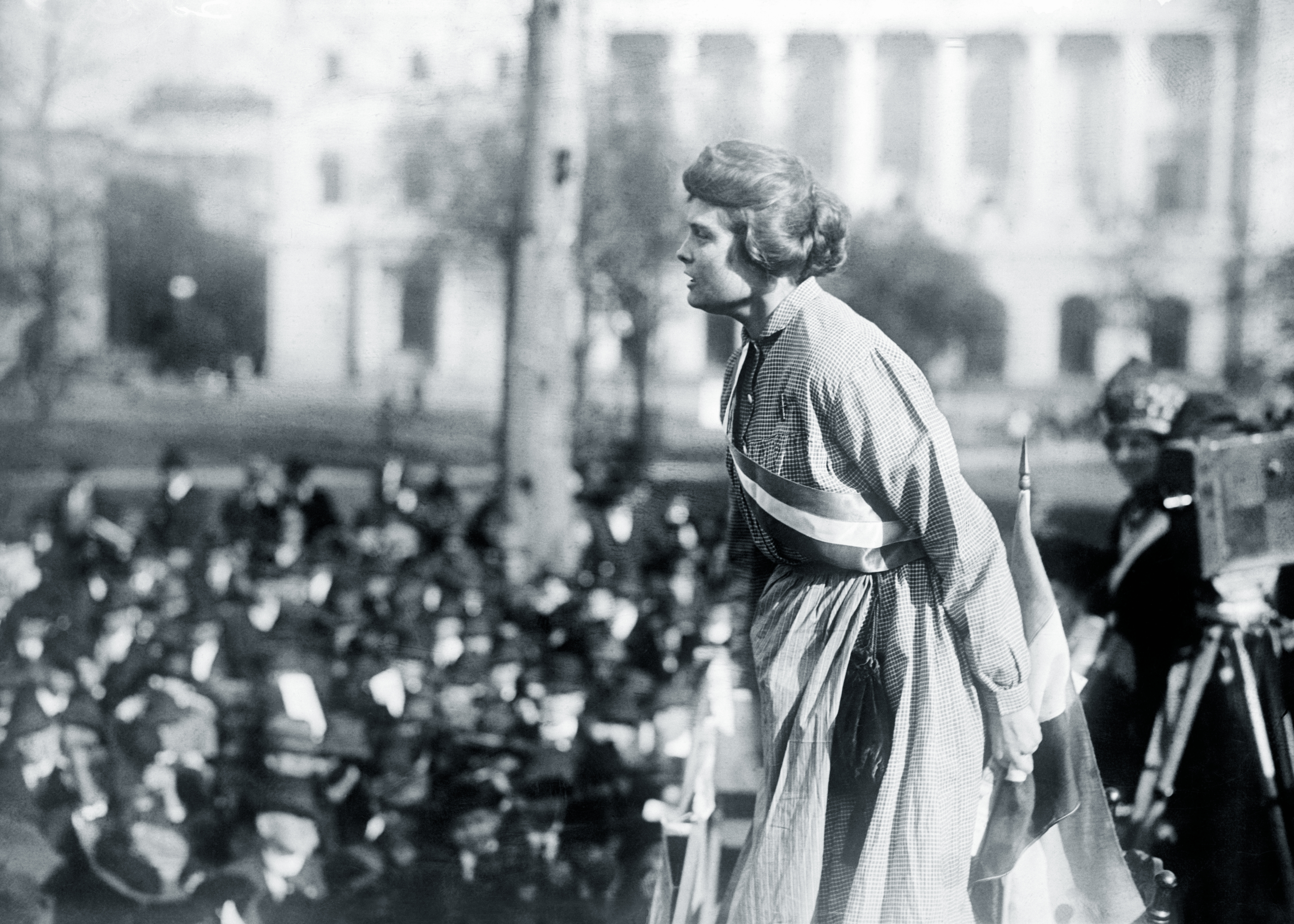 Title: BRANHAM, LUCY. SUFFRAGETTE Abstract/medium: 1 negative : glass ; 5 x 7 in. or smaller